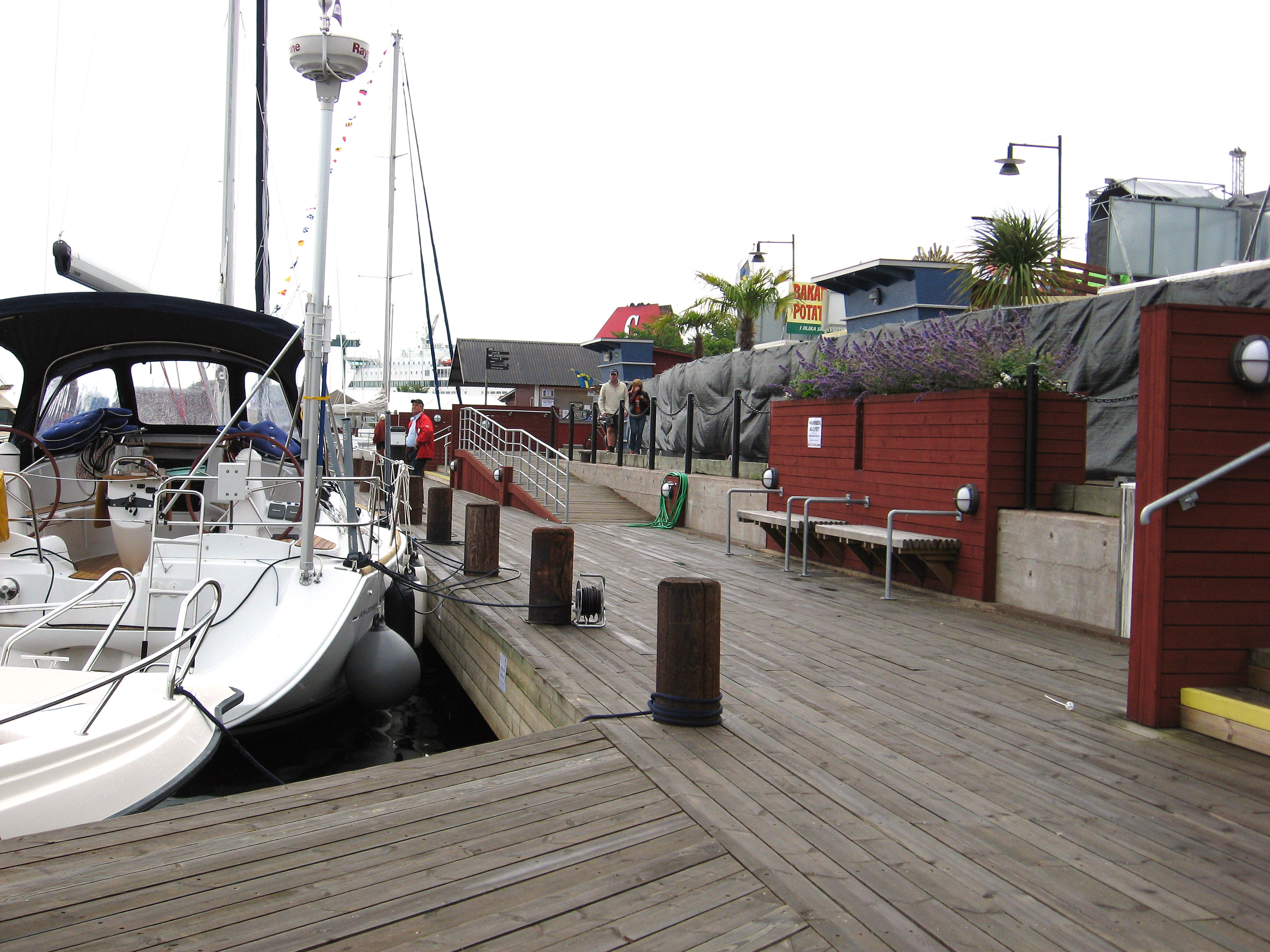 Guest harbour Brädholmen in Oskarshamn, Sweden.